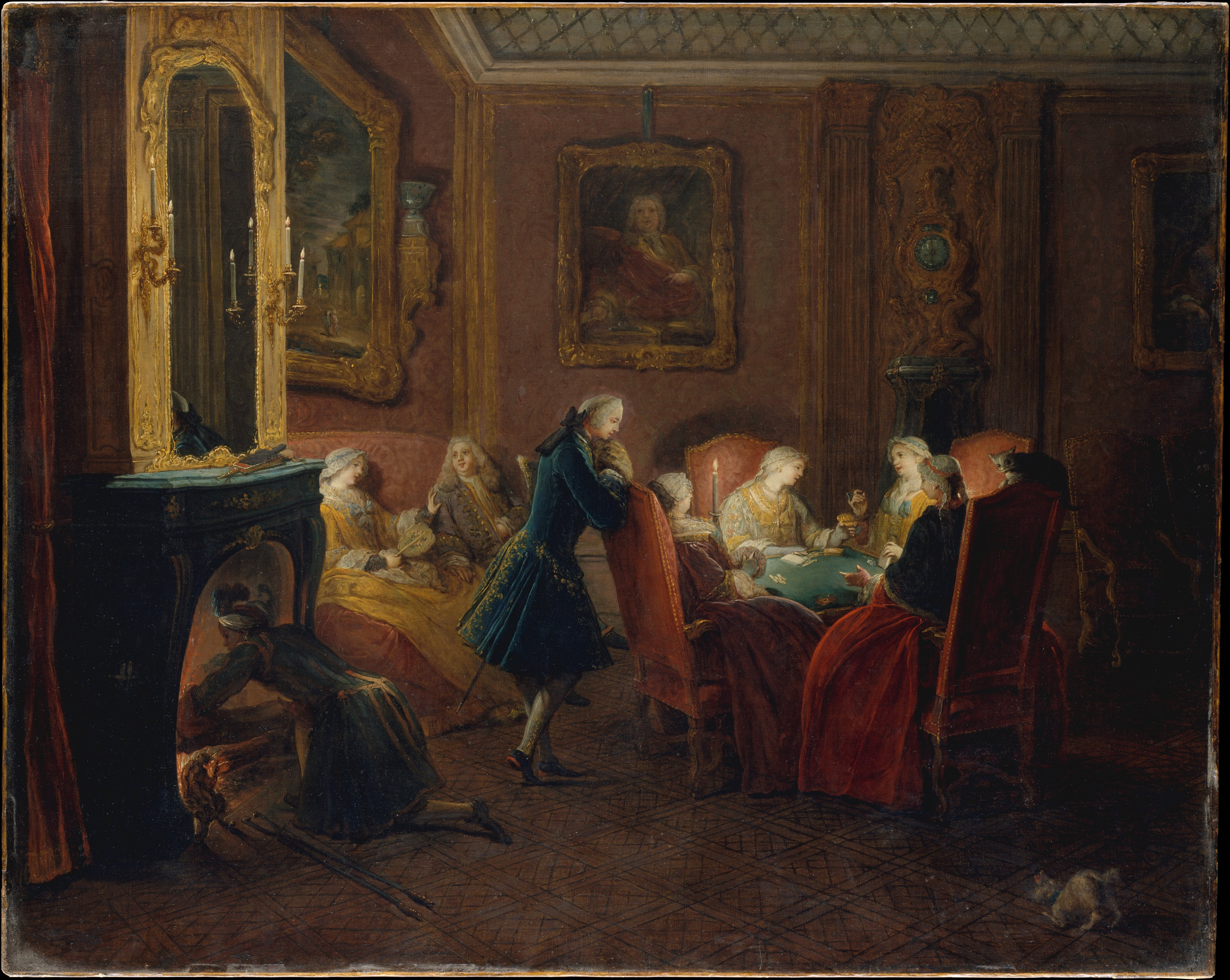 Card Players in a Drawing Room by Pierre Louis Dumesnil the younger, oil on canvas, Metropolitan Museum of Art, accession 1976.100.8